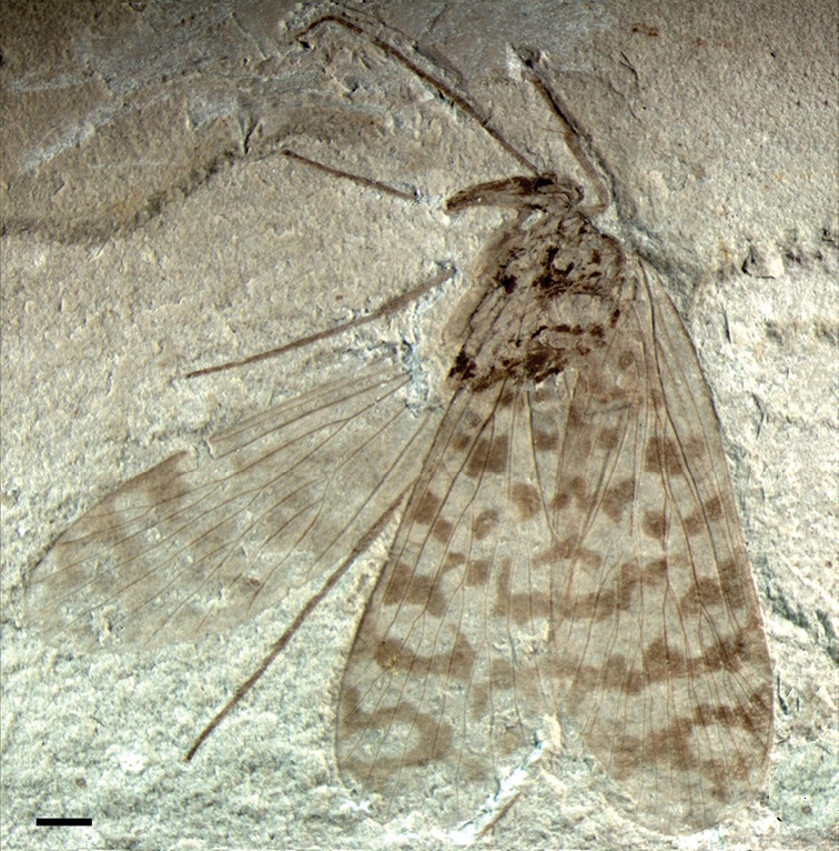 Jurassipanorpa sticta holotype. Scale bar: 1 mm